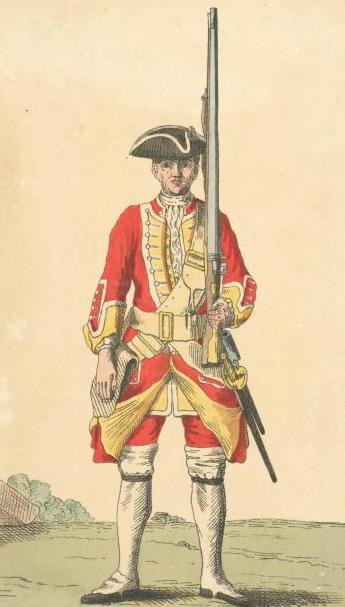 Soldier of the 30th regiment (1742)